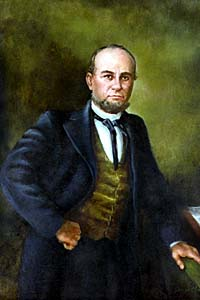 Source= The New Georgia Encyclopedia. Portrait of James Johnson created before 1923 based on lifespan, most likely in 1865, so in public domain.